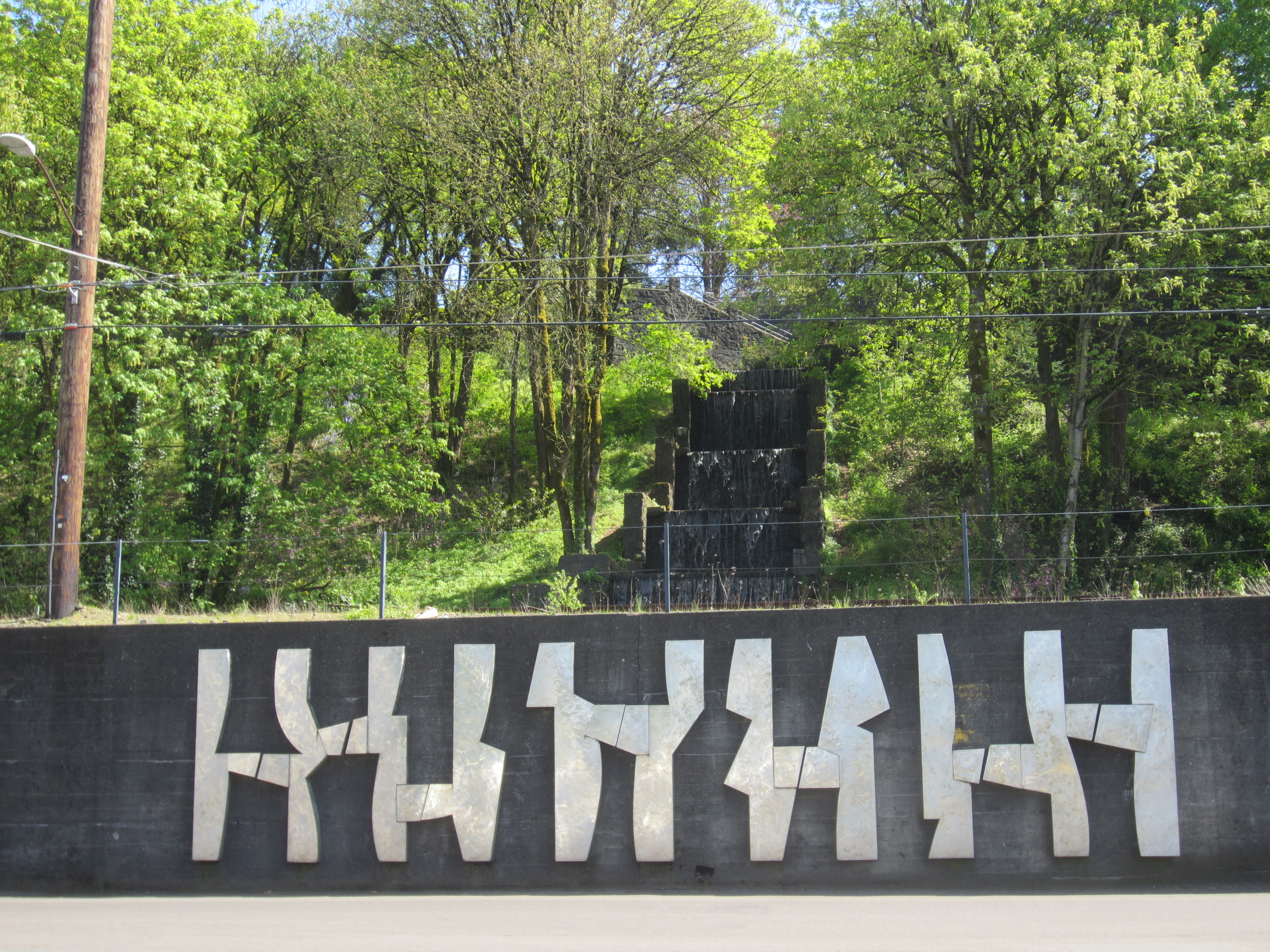 Oregon City, Oregon (April 2018)